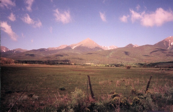 Horn Peak (13,450) in the Sangre de Cristo Mountains as seen from the Wet Mountain Valley. Picture by Mike Downey in 2003.